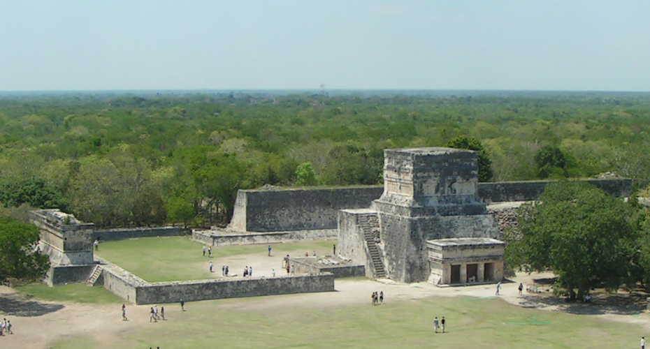 A view of the Chichen Itza Ballgame (Yucatán, Mexico), from the pyramid "El Castillo"